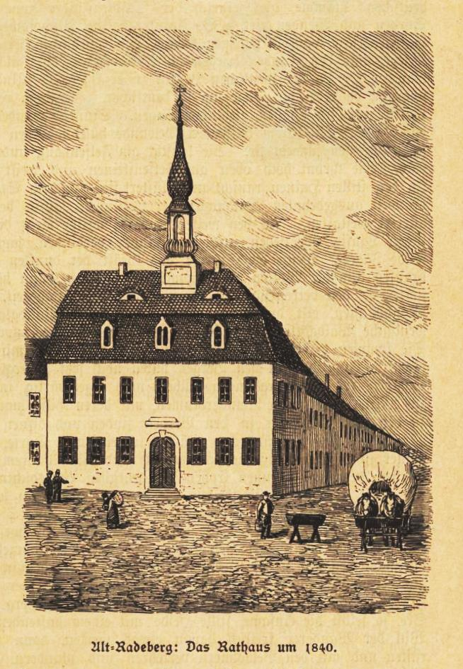 Radeberg Beiträge zur Sächs. Volks- und Heimatkunde. Mit Zeichnungen von Professor O. Seyffert und Maler F. Rowland.